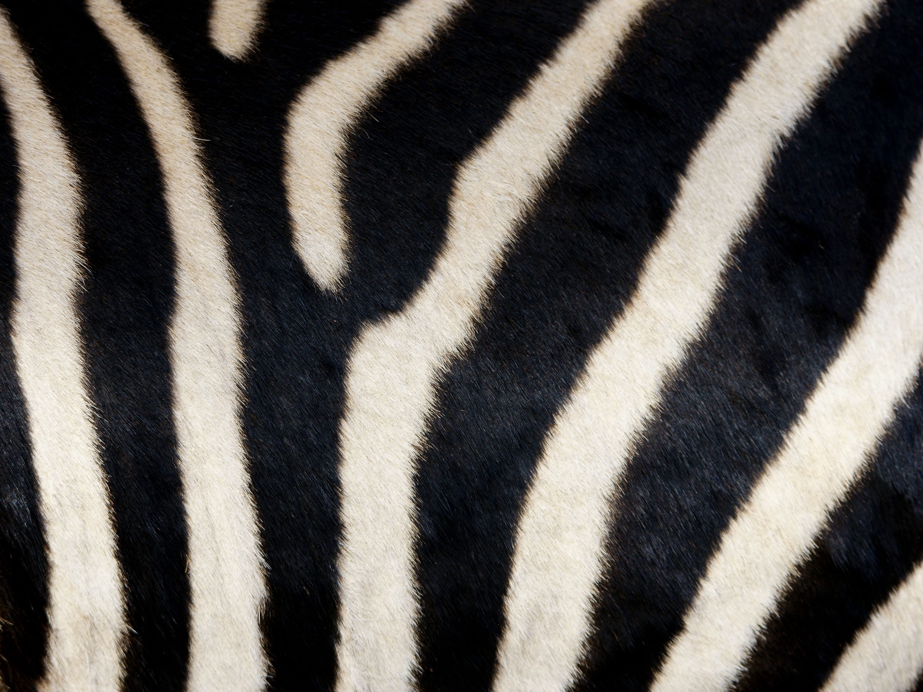 Skin of a Grant's Zebra near Chilanga, Zambia.